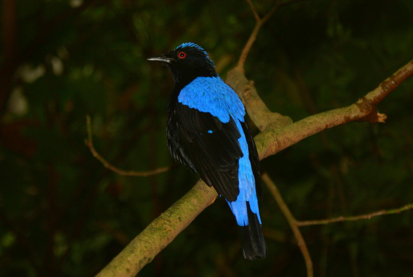 Asian Fairy-bluebird at Tiergarten Schönbrunn (or Vienna Zoo) Vienna, Austria.